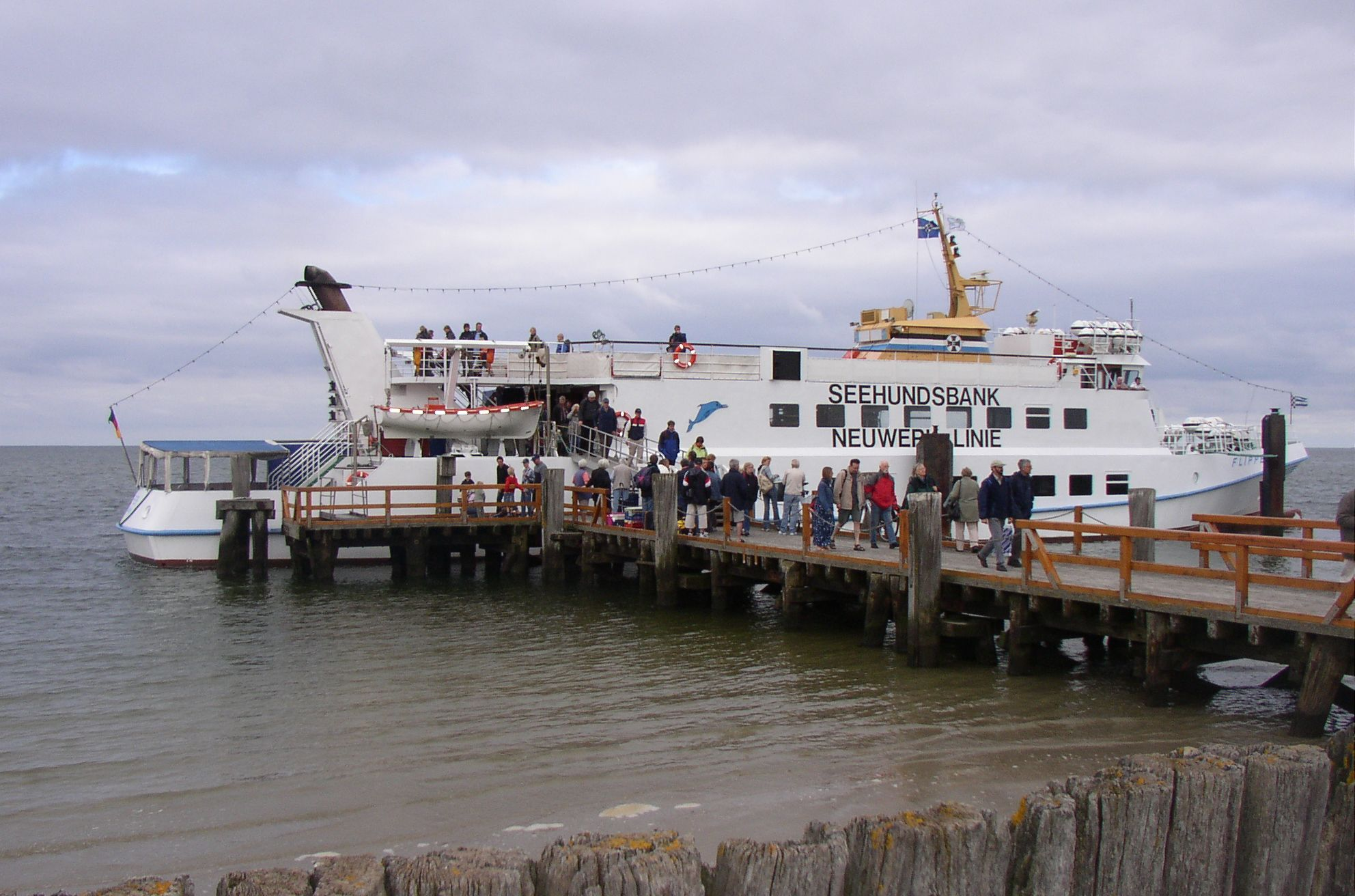 MS Flipper II of the shipping line Cassen Eils (Neuwerk)